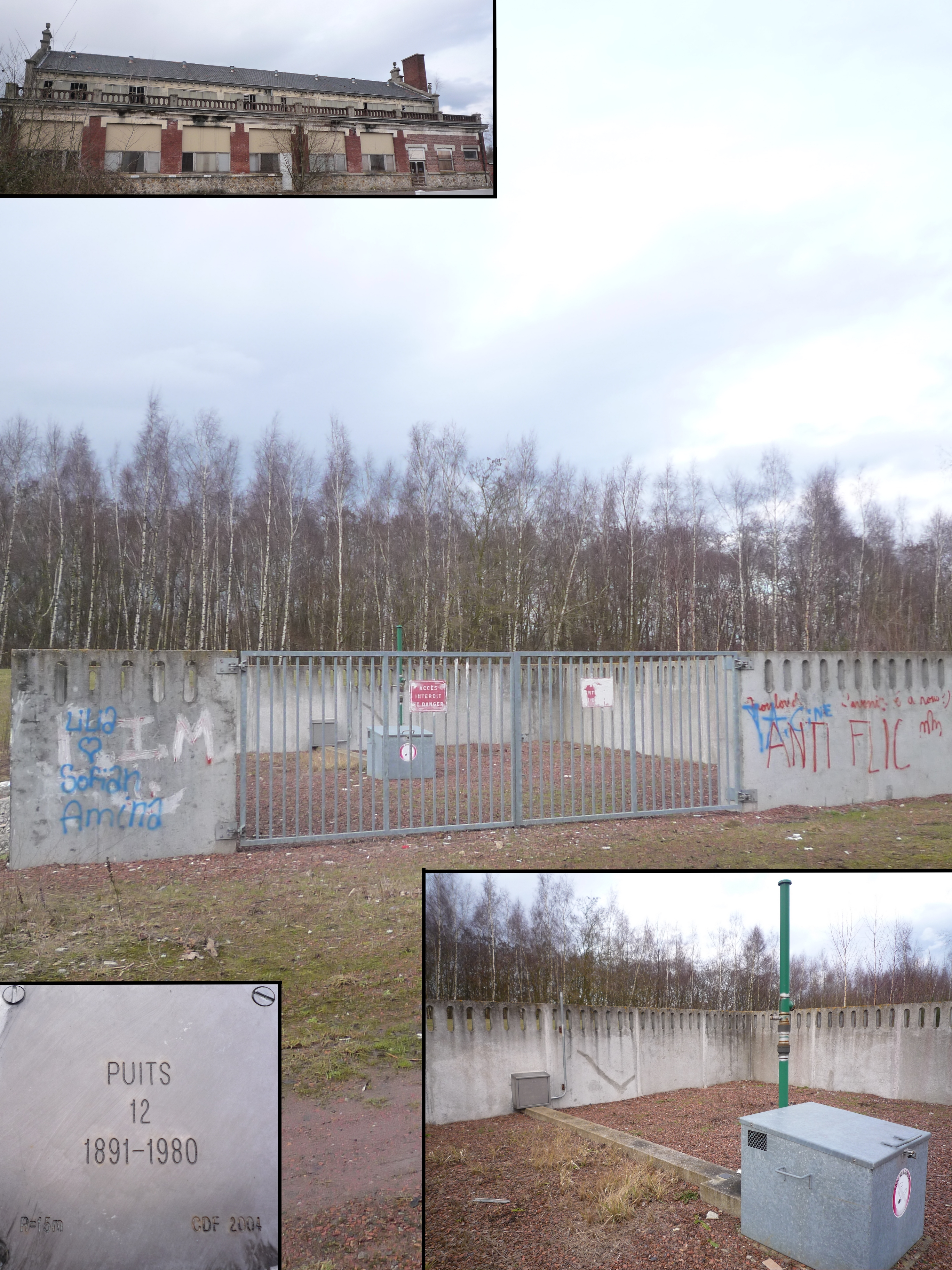 Pit n° 12, Compagnie des mines de Lens, Loos-en-Gohelle, Pas-de-Calais, Nord-Pas-de-Calais, France.